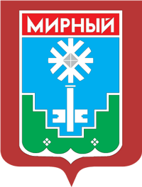 Mirny (Yakutia), coat of arms (1989)